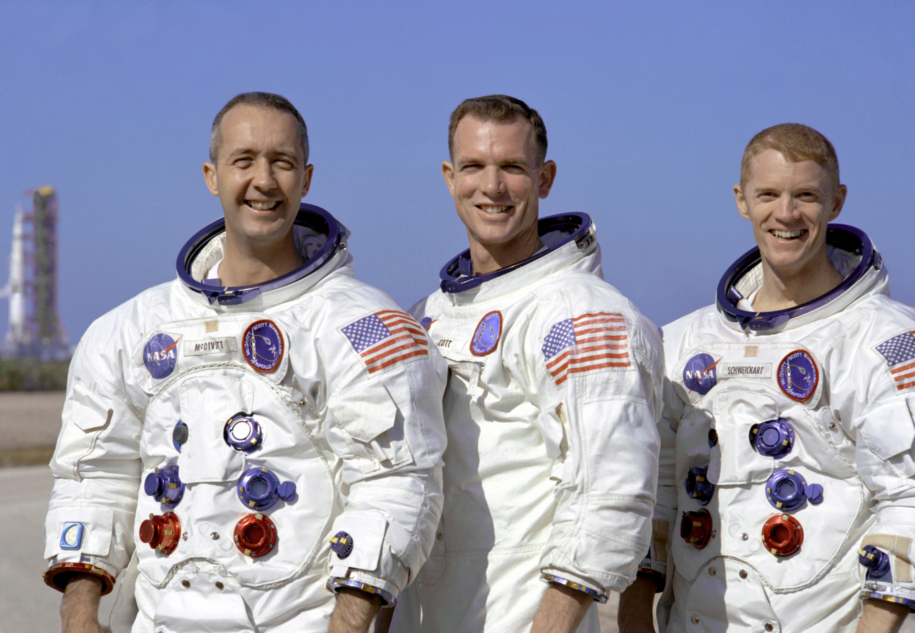 Portrait of the Apollo 9 prime crew in their space suits. From left to right they are: Commander, James A. McDivitt, Command Module pilot, David R. Scott, and Lunar Module pilot, Russell L. Schweickart. The Apollo 9 mission was designed to test the Apollo Command/Service and Lunar Modules in Earth orbit. The purpose was to verify that the Command/Service Module (CSM) could successfully dock with the Lunar Module (LM). The mission was also to test the LM systems in a "free flying" attitude to ensure that it performed as per specifications.